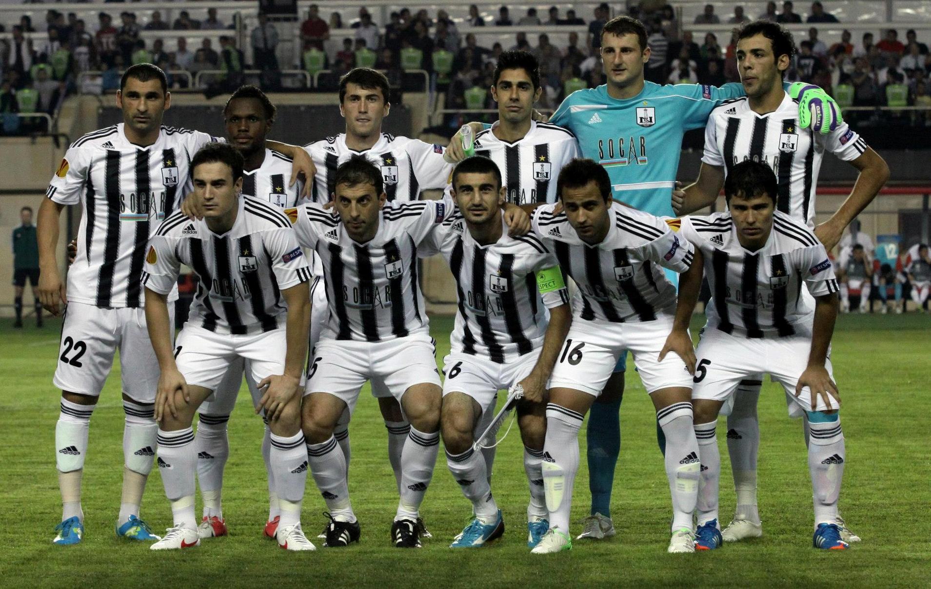 UEFA Europa League 2012-10-04 Neftchi Baku-FC Internazionale Milano.